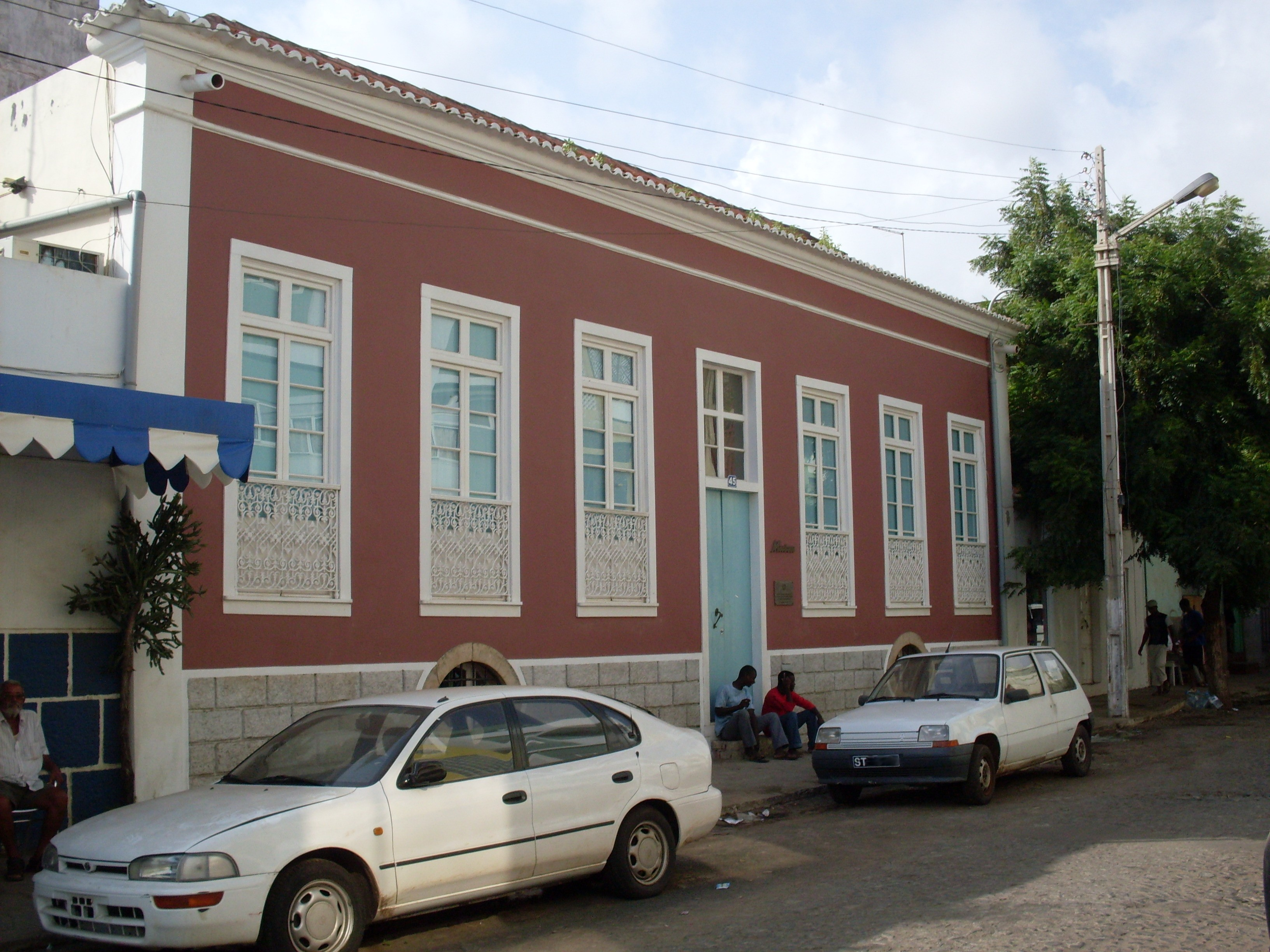 Museu Etnográfico, in Praia